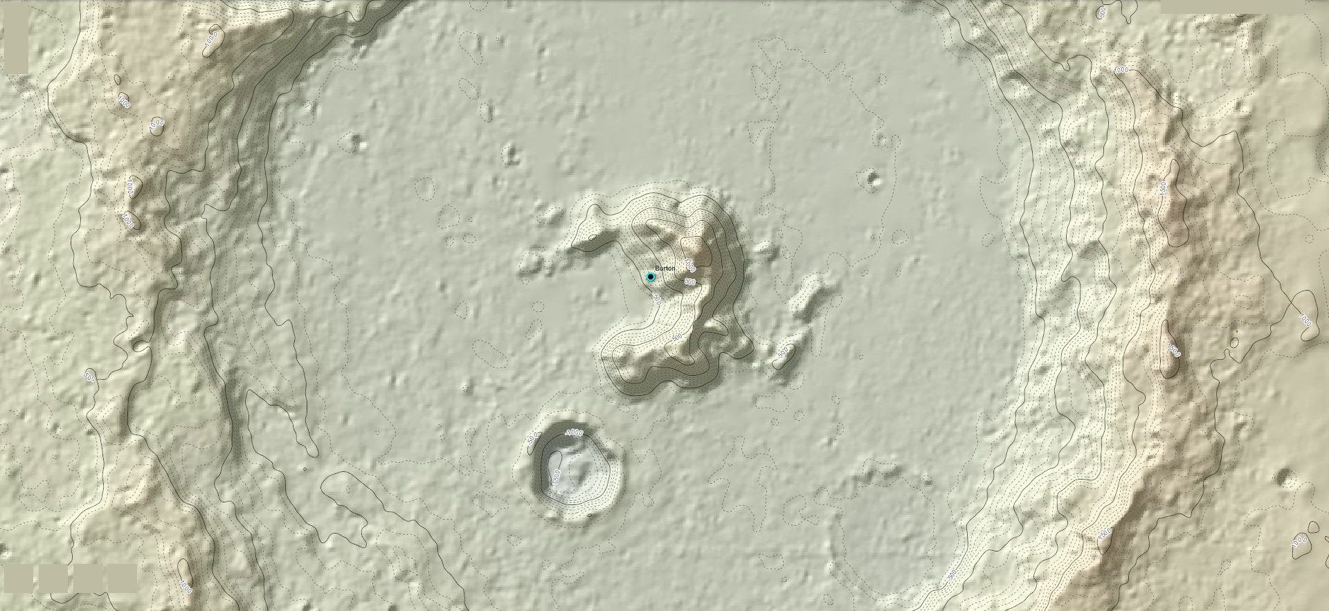 The central peak is easily seen in this topographic map of Burton Crater. It rises approximately 2,100 meters from the crater floor.